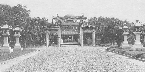 Kenkou Shrine